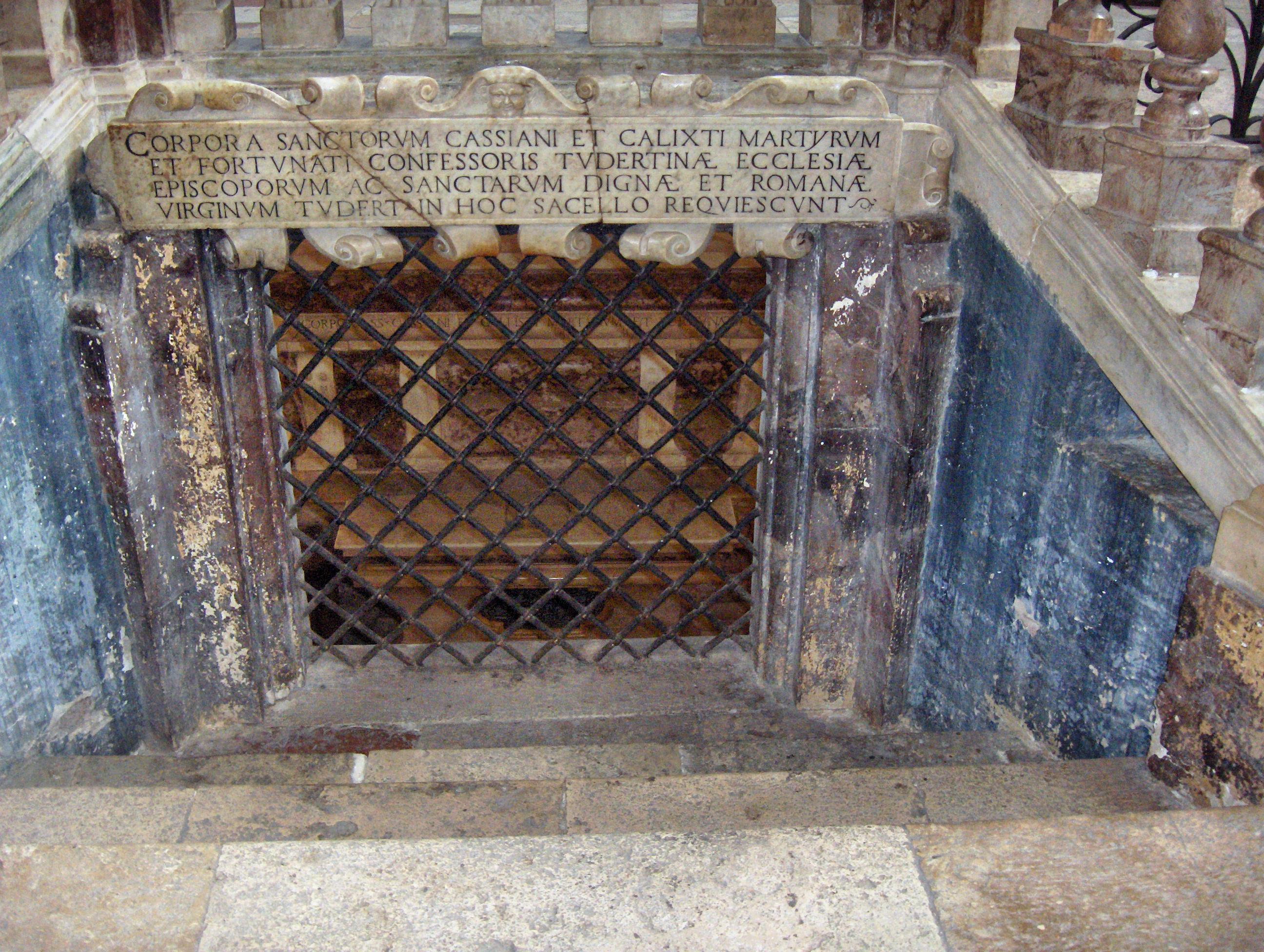 Entrance to the crypt; church of San Fortunato; Todi, Umbria, Italy